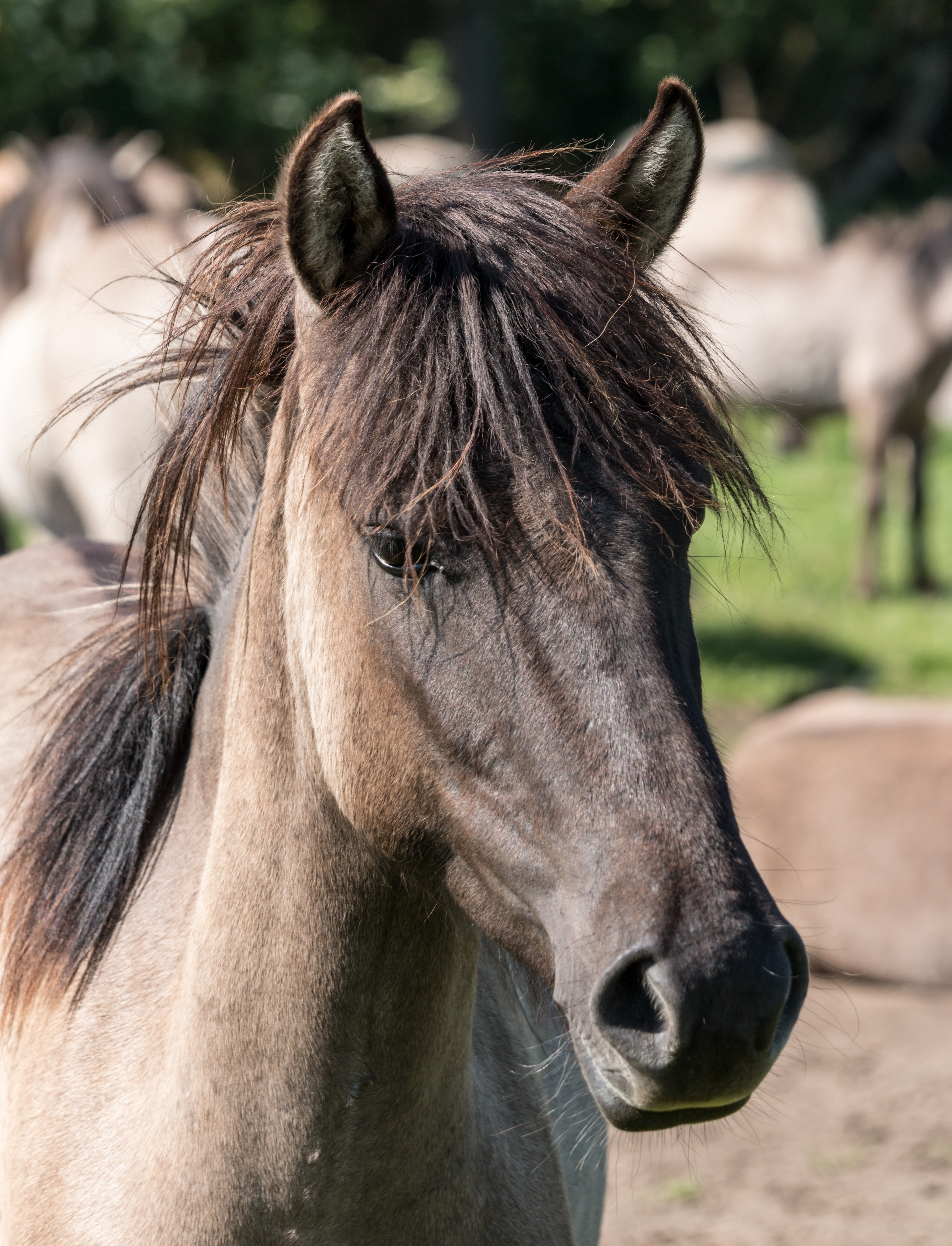 Feral Dülmen Ponies, Merfelder Bruch, Dülmen, North Rhine-Westphalia, Germany; Wildpferdefang 2014